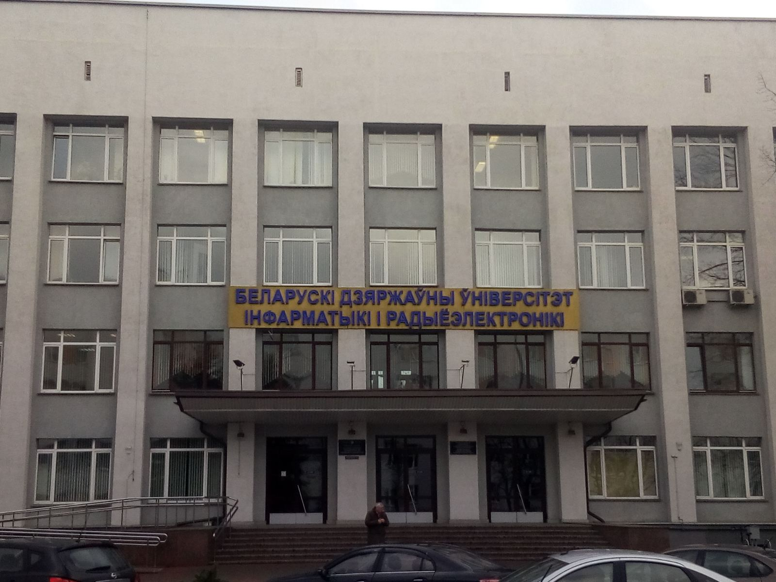 Belarusian State University of Informatics and Radioelectronics (6 Pietrusia Broŭki Street, Saviecki District, Minsk; 3rd of March, 2020).